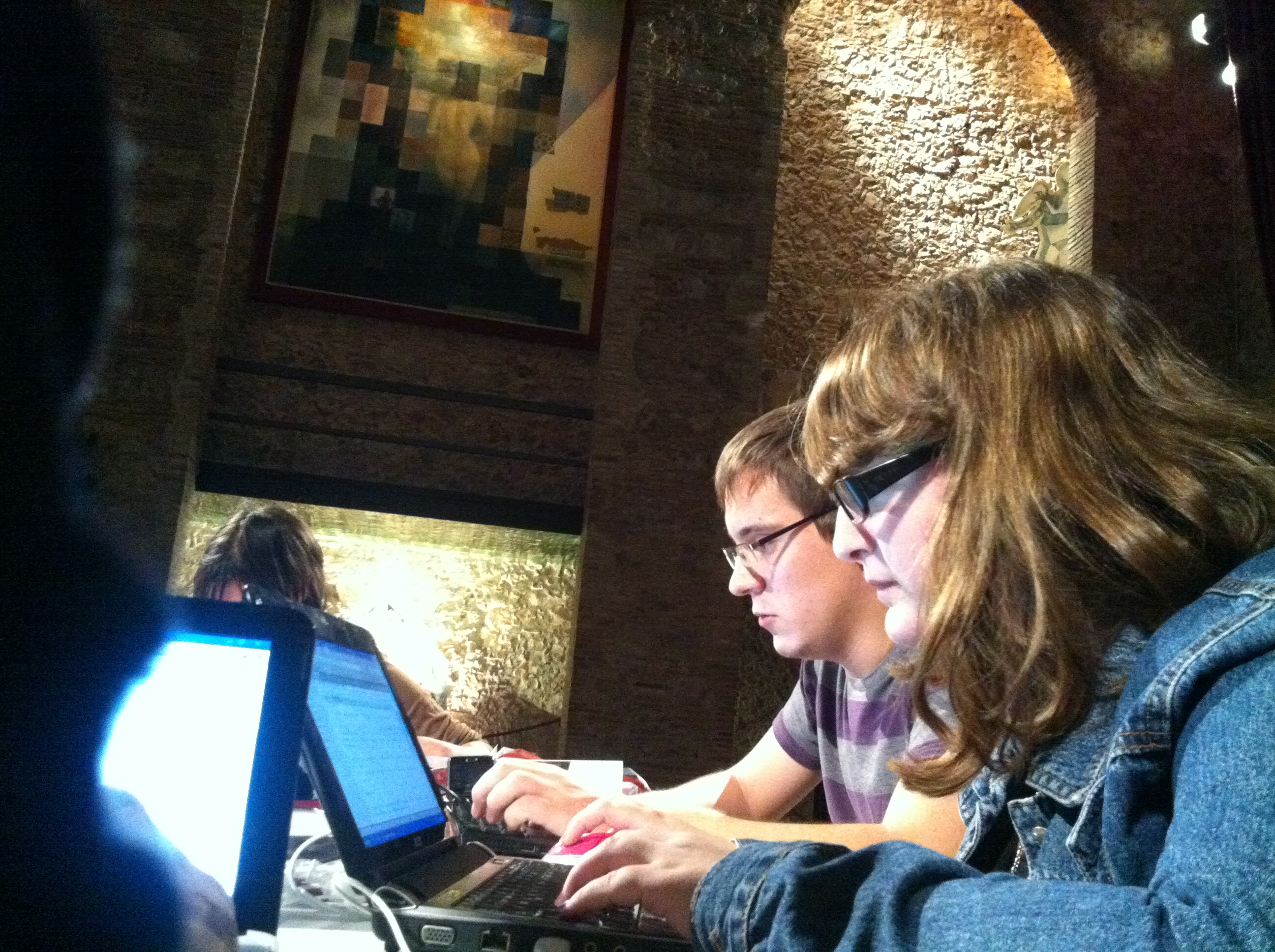 Edit-a-thon at the Dalí Foundation in Figueres in september 2012, organized by Amical and the museum